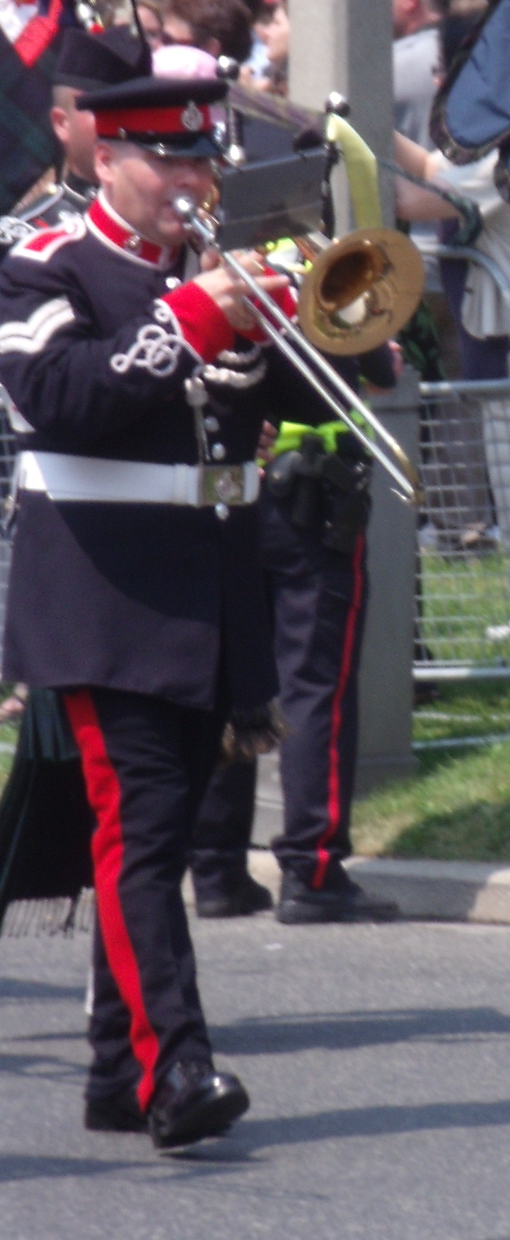 Guard of Honour